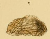 Acar plicata (Dillwyn, 1817), Arcidae, Bivalvia, Mollusca